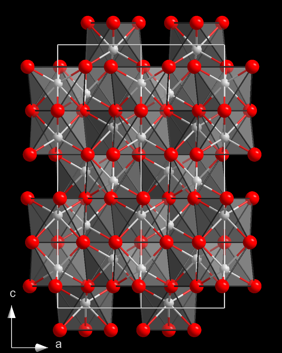 Crystal structure of corundum with view along b-axis ([010])